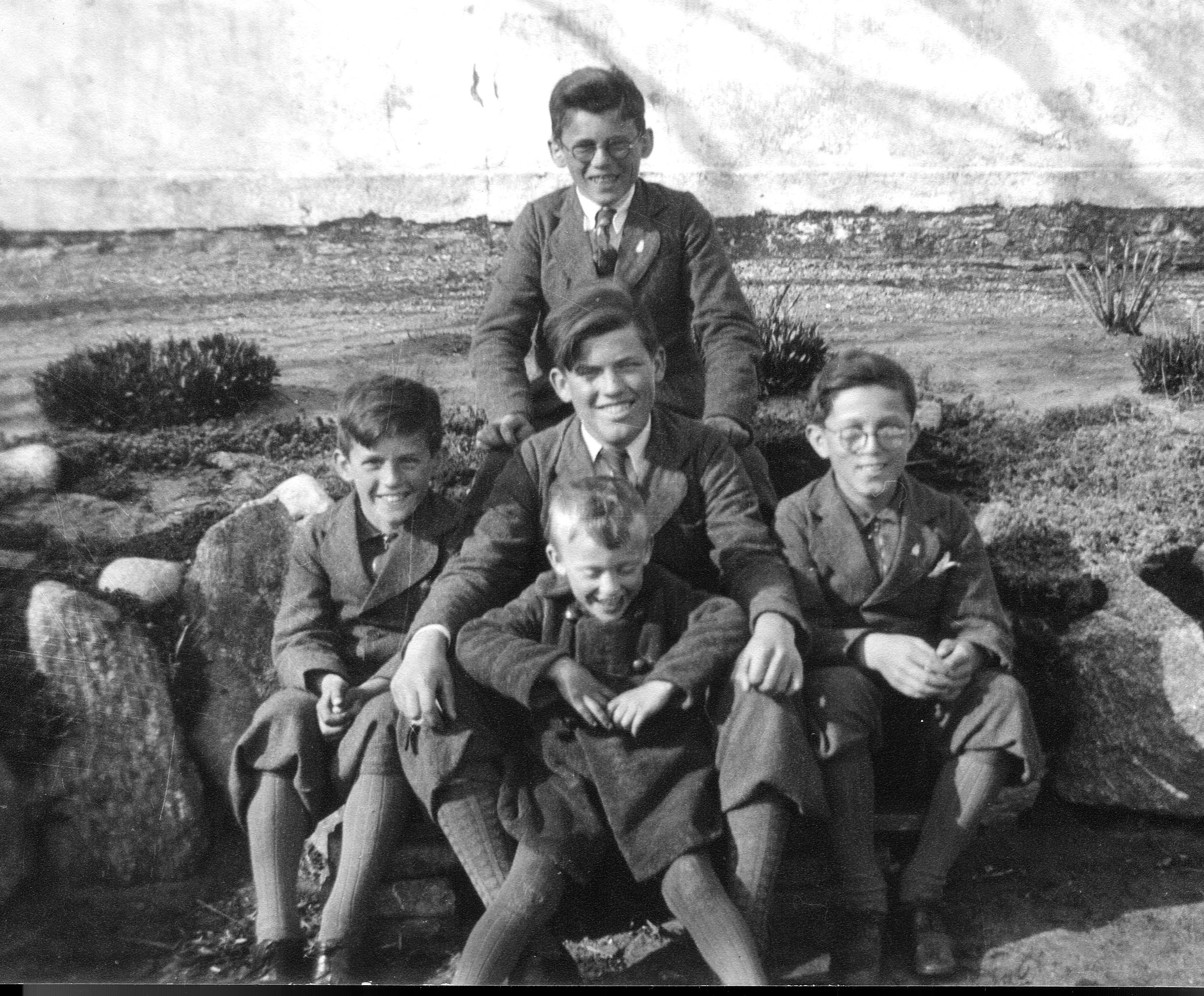 The Lebeck resistance group. Far row: Johannes Jensen. Middle row: Anker Jensen, Hans Peter Jensen, Marius Schack Jensen. Front row: Nis Th. Jensen